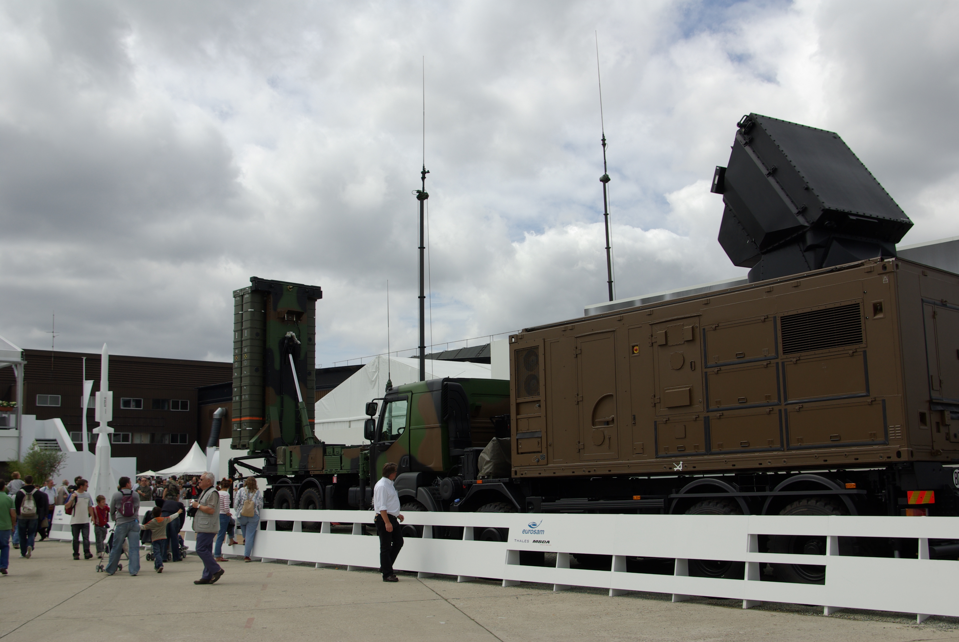 System ASTER, with radar, laucher and missile